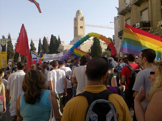 Jerusalem pride parade 2008. Jerusalem, Israel.